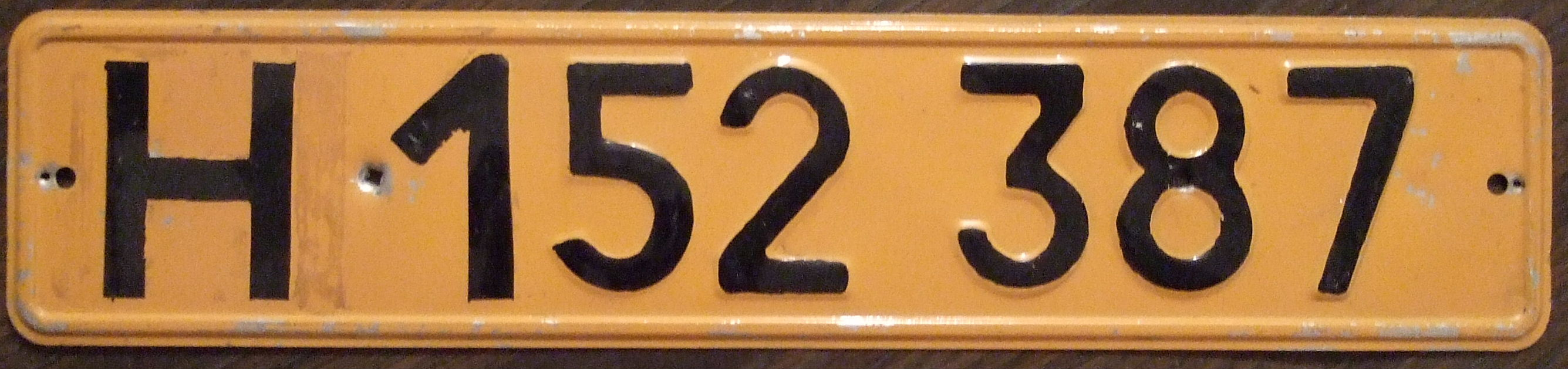 This plate was issued to foreigners residing in the Soviet Union.